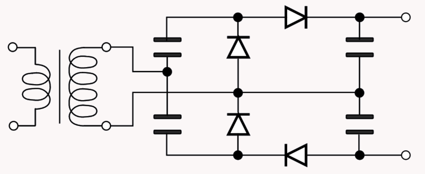 Voltage quadrupler – two Greinacher cells of opposite polarities